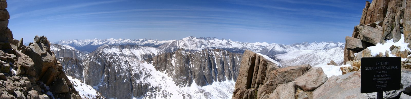 Photo at Trail Crest on the Main Mount Whitney Trail at 13,600 feet elevation. Photo overlooks the backcountry of Sequoia National Park.